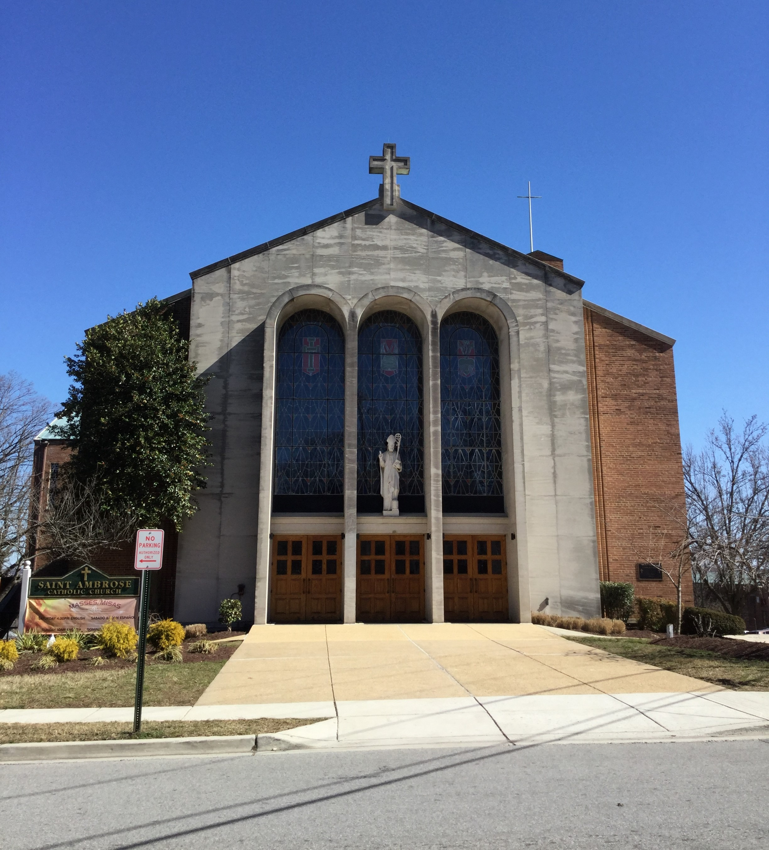 Front view of St Ambrose, Cheverly, MD